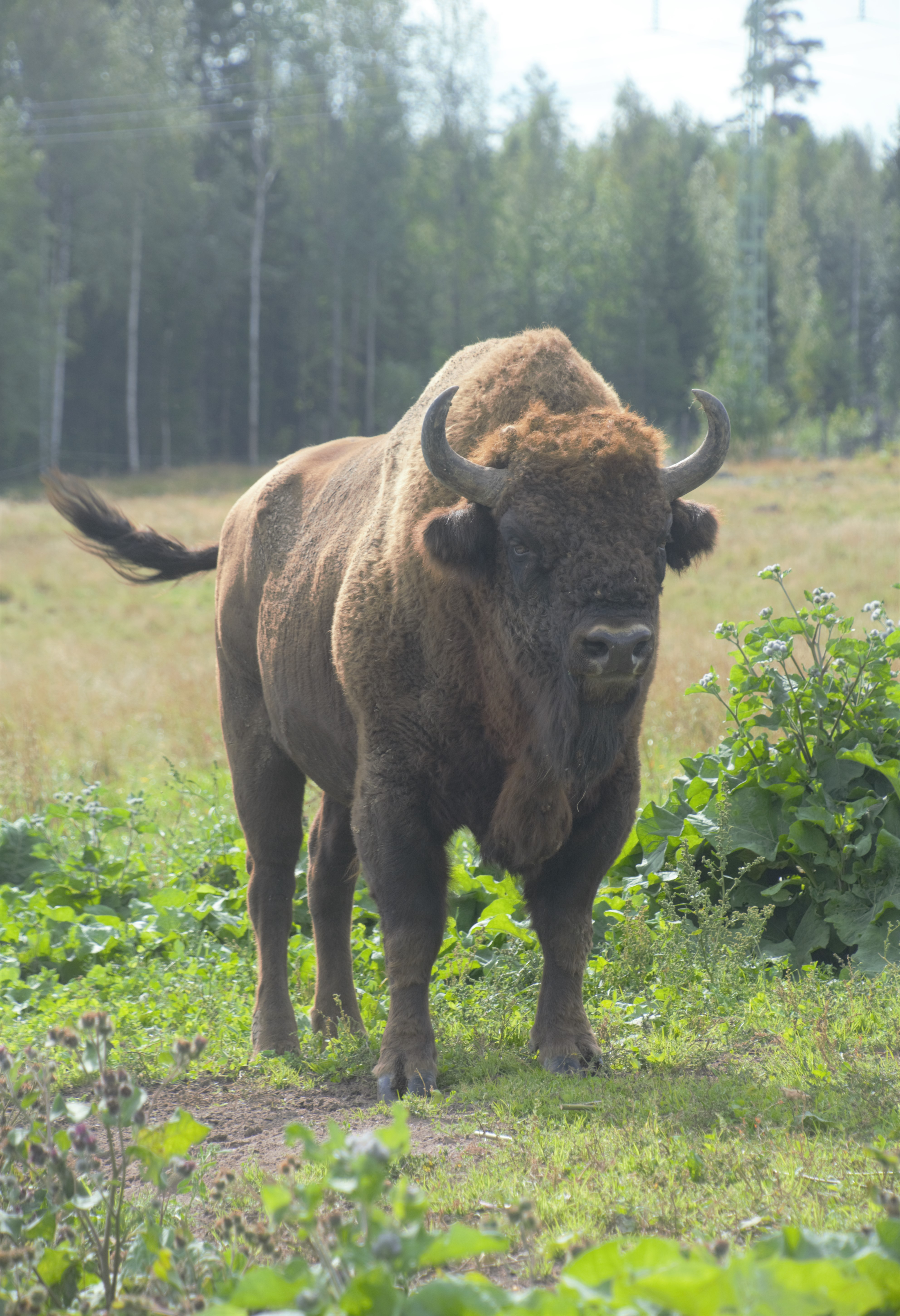 European bison bull at Avesta visentpark